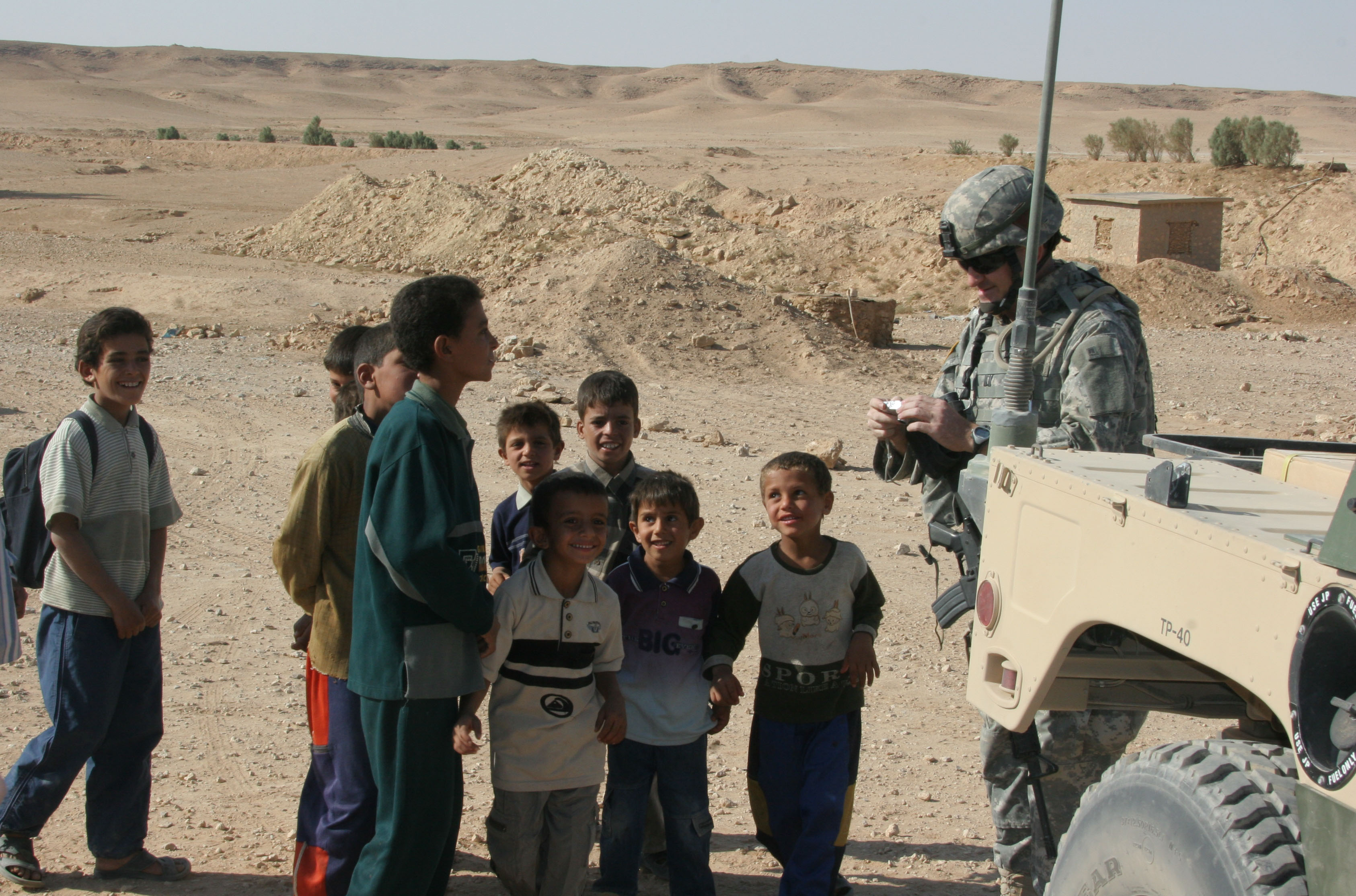 AL ASAD, Iraq - Army Capt. Patrick R. Monahan, the 1st Battalion, 109th Infantry Regiment�s adjutant, shows his camera off to Iraqi children from the town of Hawran Wadi during a civil affairs mission, Oct. 8.